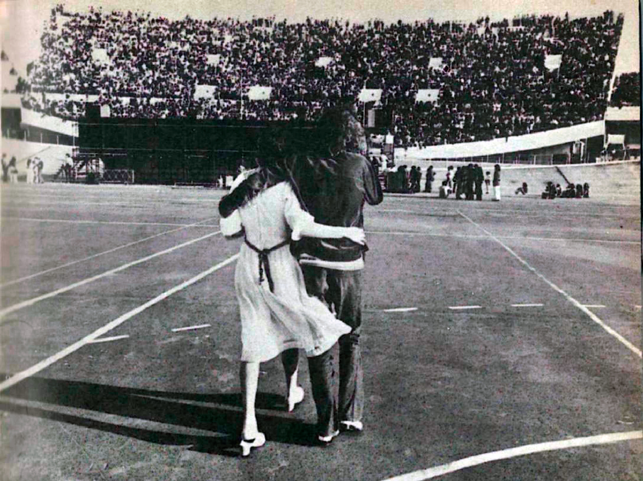 Luis Alberto Spinetta and Cristina Bustamante.